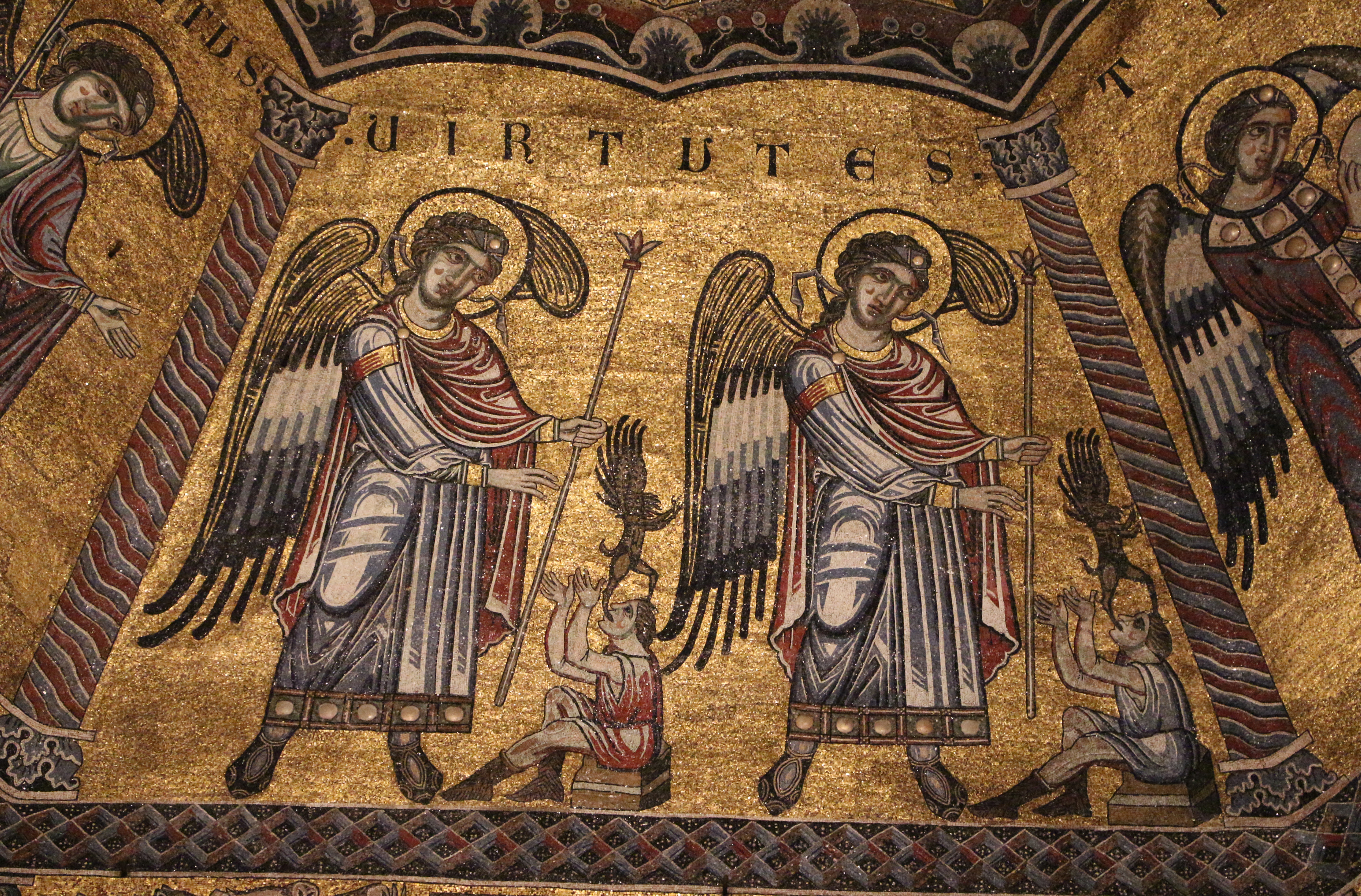 Angelic hierarchy in the Florence Baptistry